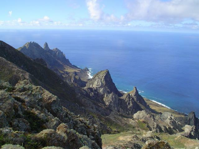 Trindade Island, Brazil